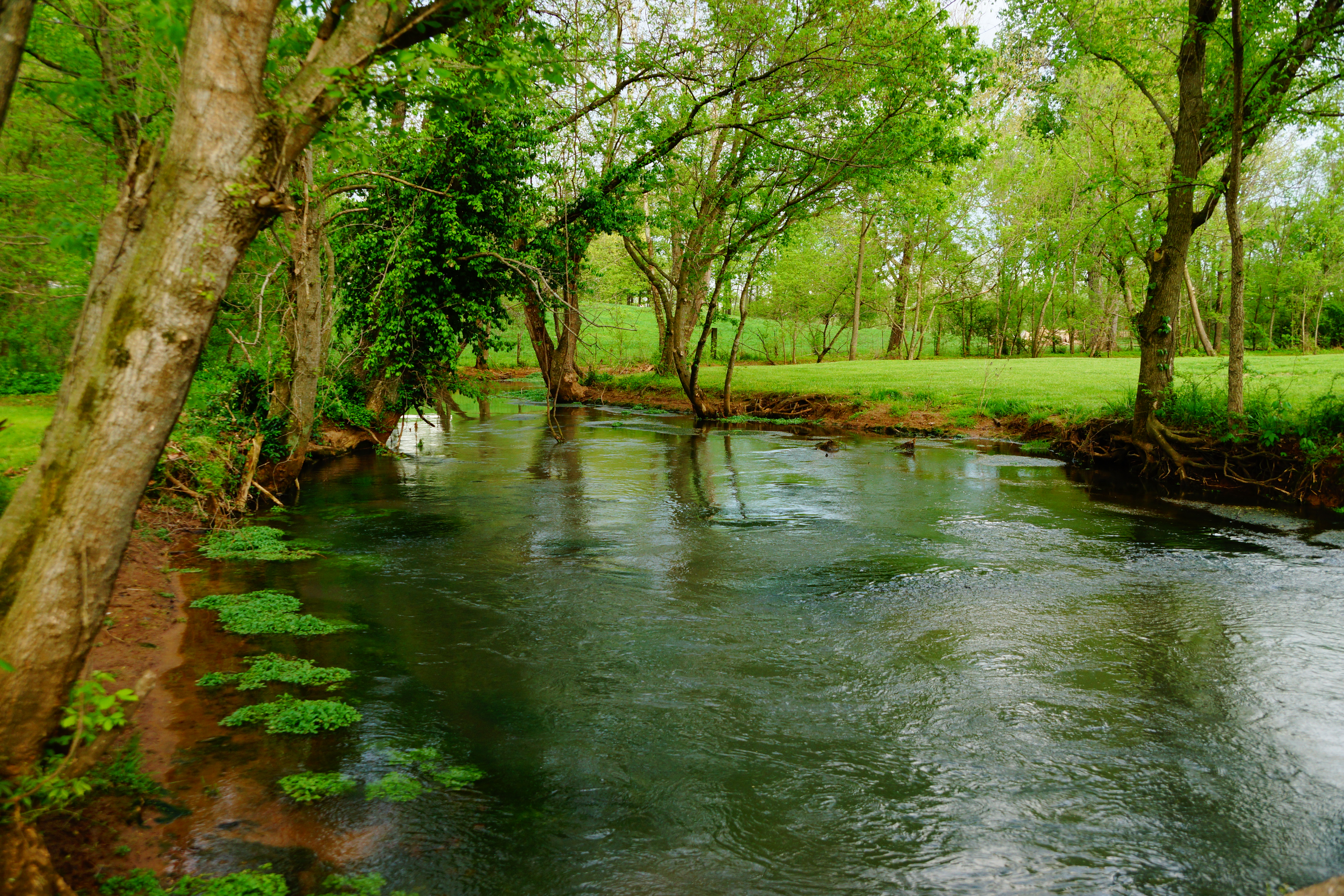 The Red River in Logan County, KY, at the site of the Red River Meeting House.